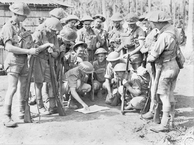 Australian soldiers from the 2/10th Infantry Battalion prepare for a patrol around Milne Bay, Papua